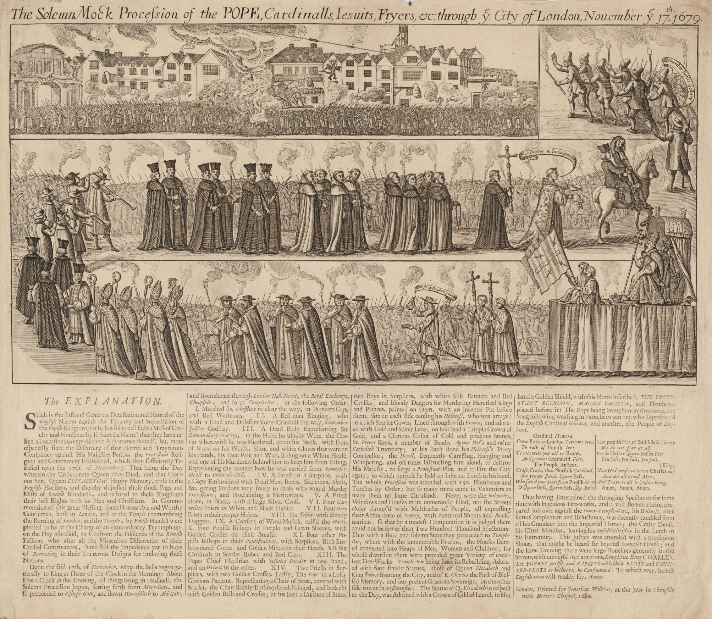 Broadside with illustration: "The solemn mock procession of the Pope Cardinalls Jesuits fryers &c: through the citty of London November the 17th. 1679." Printer London: N. Ponder, J. Wilkins and S. Lee, 1680. EB65 A100 680s4, Houghton Library, Harvard Universit